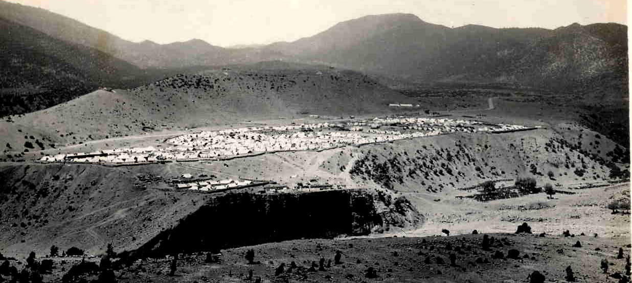 Razani Camp, August 1938, in North Waziristan, from the south east